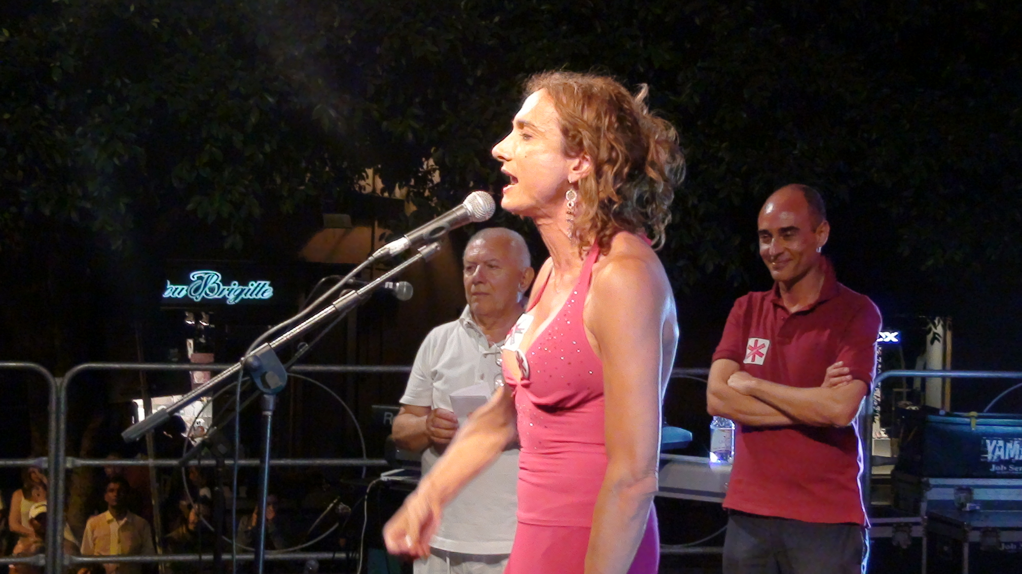 Sicilia pride Palermo 2010: Paolo Patanè, Vanni Piccolo, Vladimir Luxuria